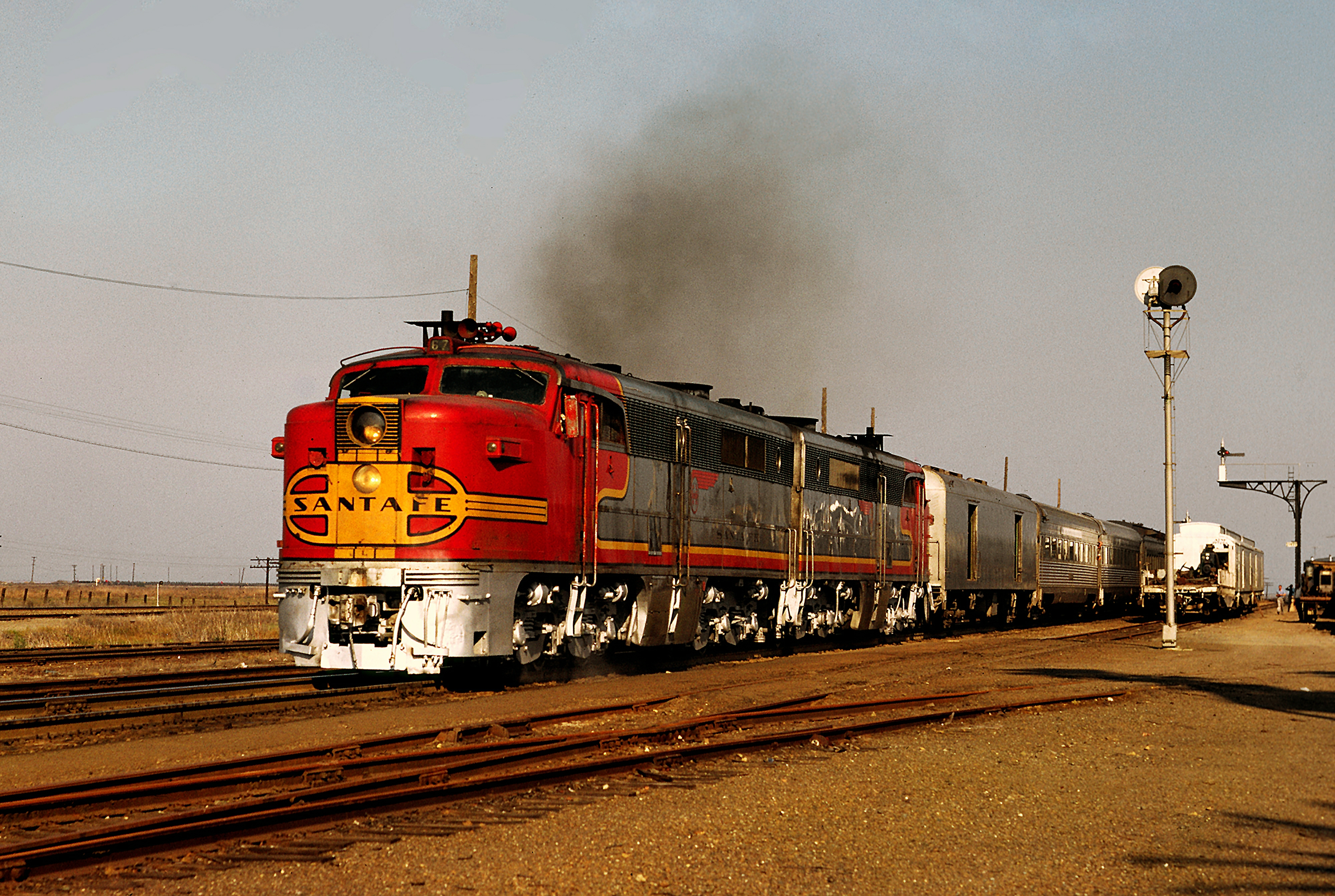 Westbound thru Port Chicago with the Last Run of a PA excursion in March of 1968. Trailing unit #67 had died leaving #58 to provide to power.